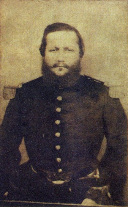 Last picture of Francisco Solano López, 1870.